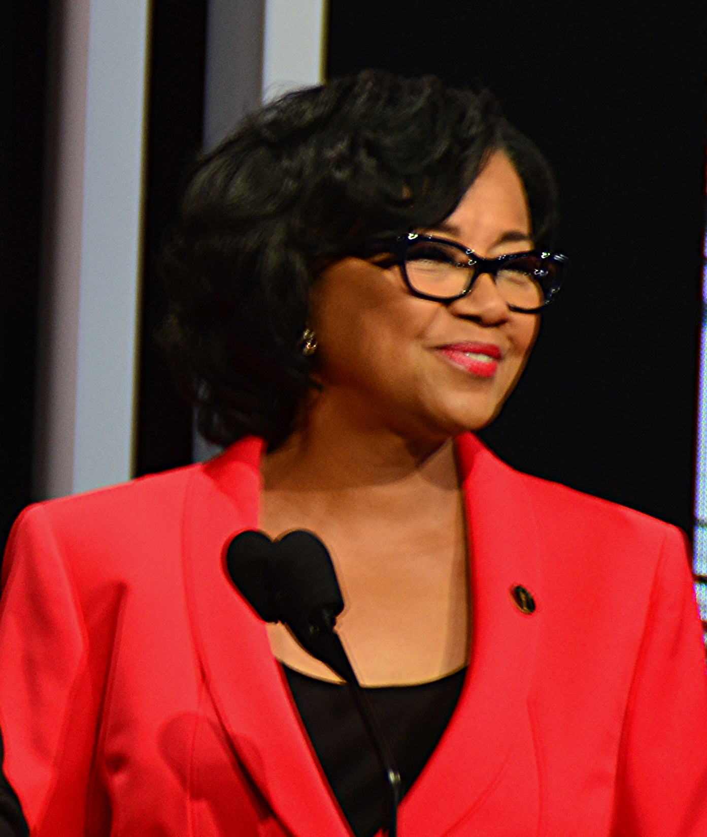 Academy President Cheryl Boone Isaacs at the 87th Oscars Nominations Announcements on January 15, 2015